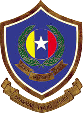 Myanmar Police Force coat of arms မြန်မာဘာသာ: ပြည်သူ့ရဲတပ်ဖွဲ့ တံဆိပ်